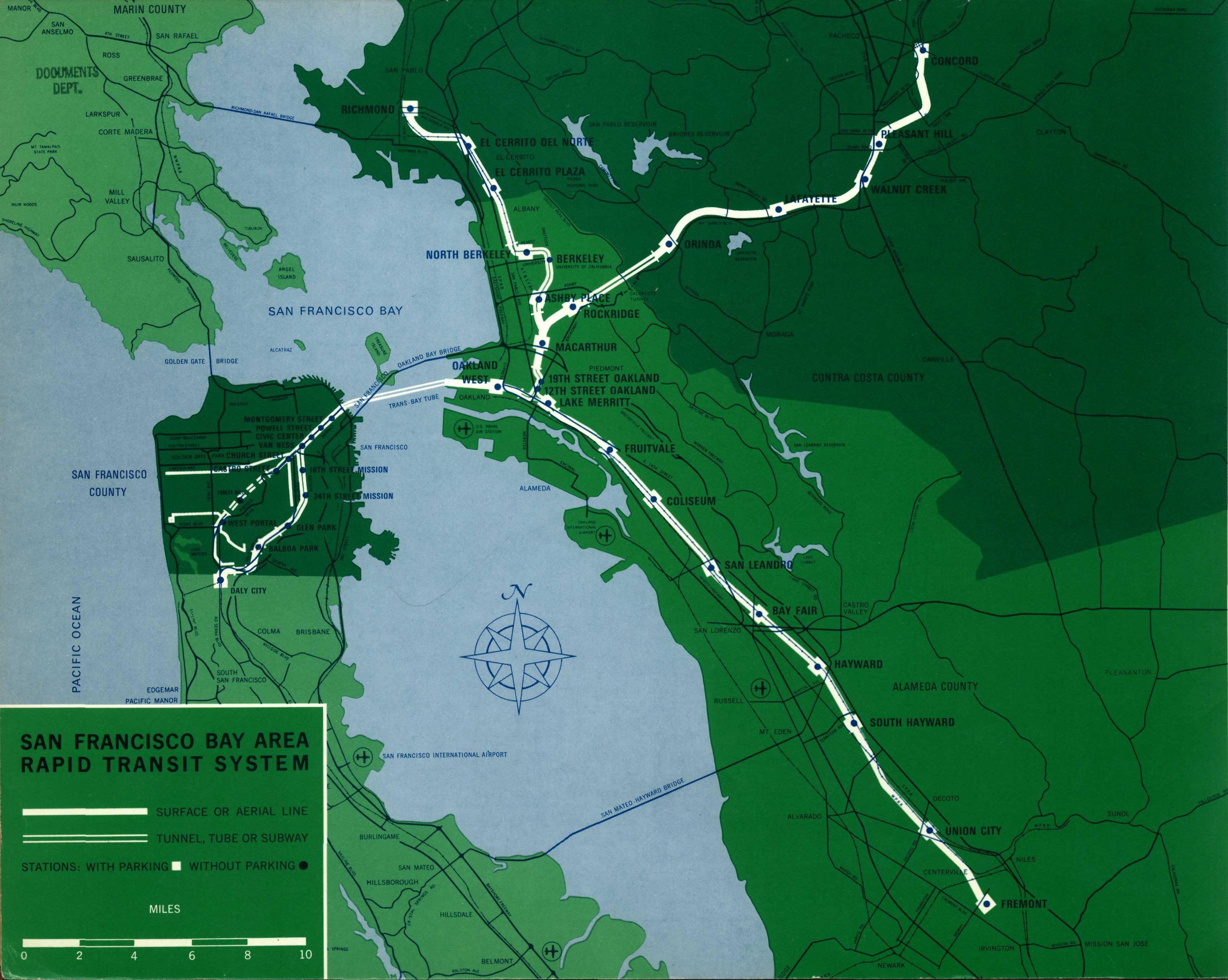 1967 map of the BART system, then beginning construction, as well as Muni Metro lines.